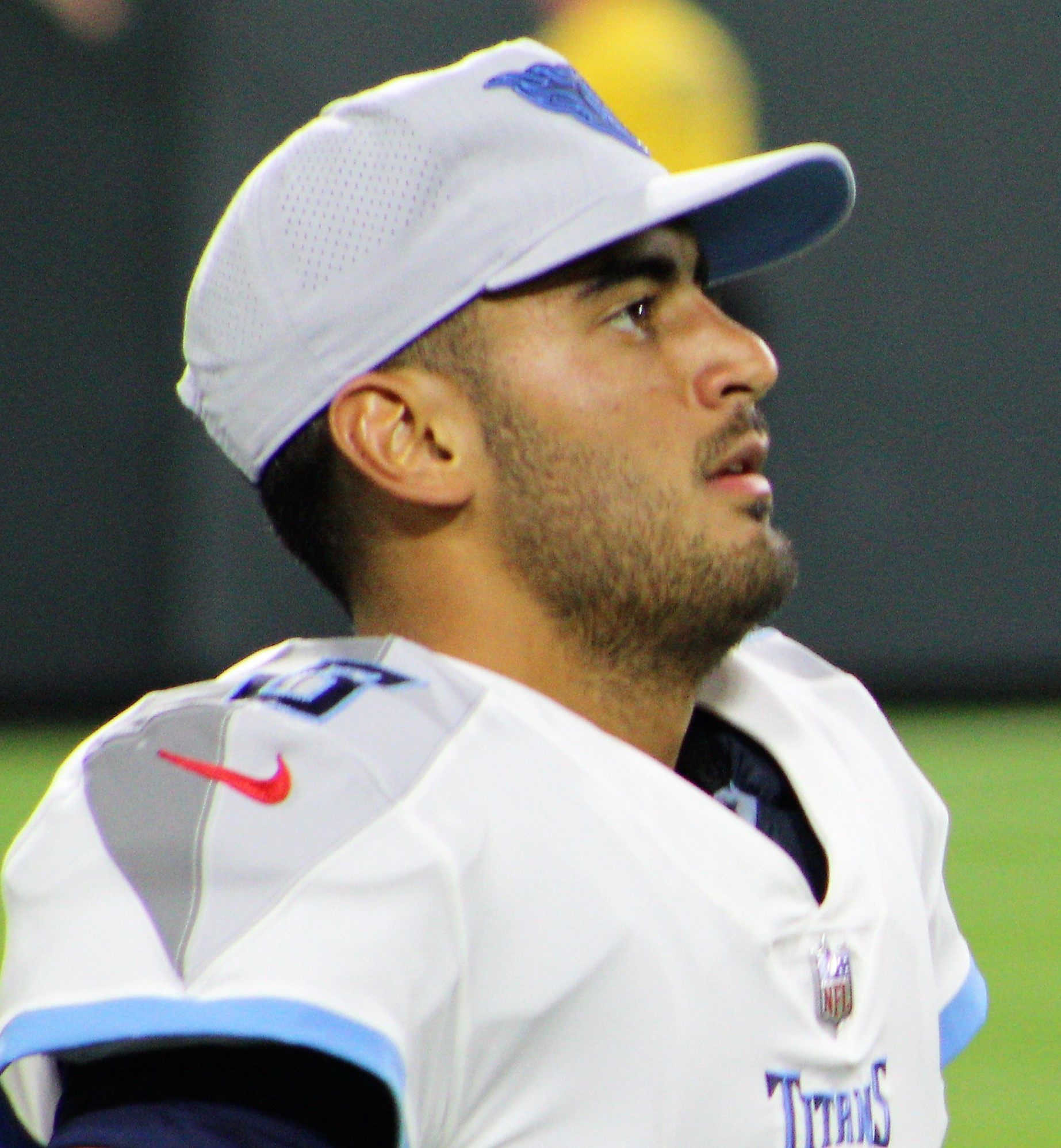 Mariota at Lambeau Field, Tennessee Titans at Green Bay Packers (Preseason), August 9, 2018